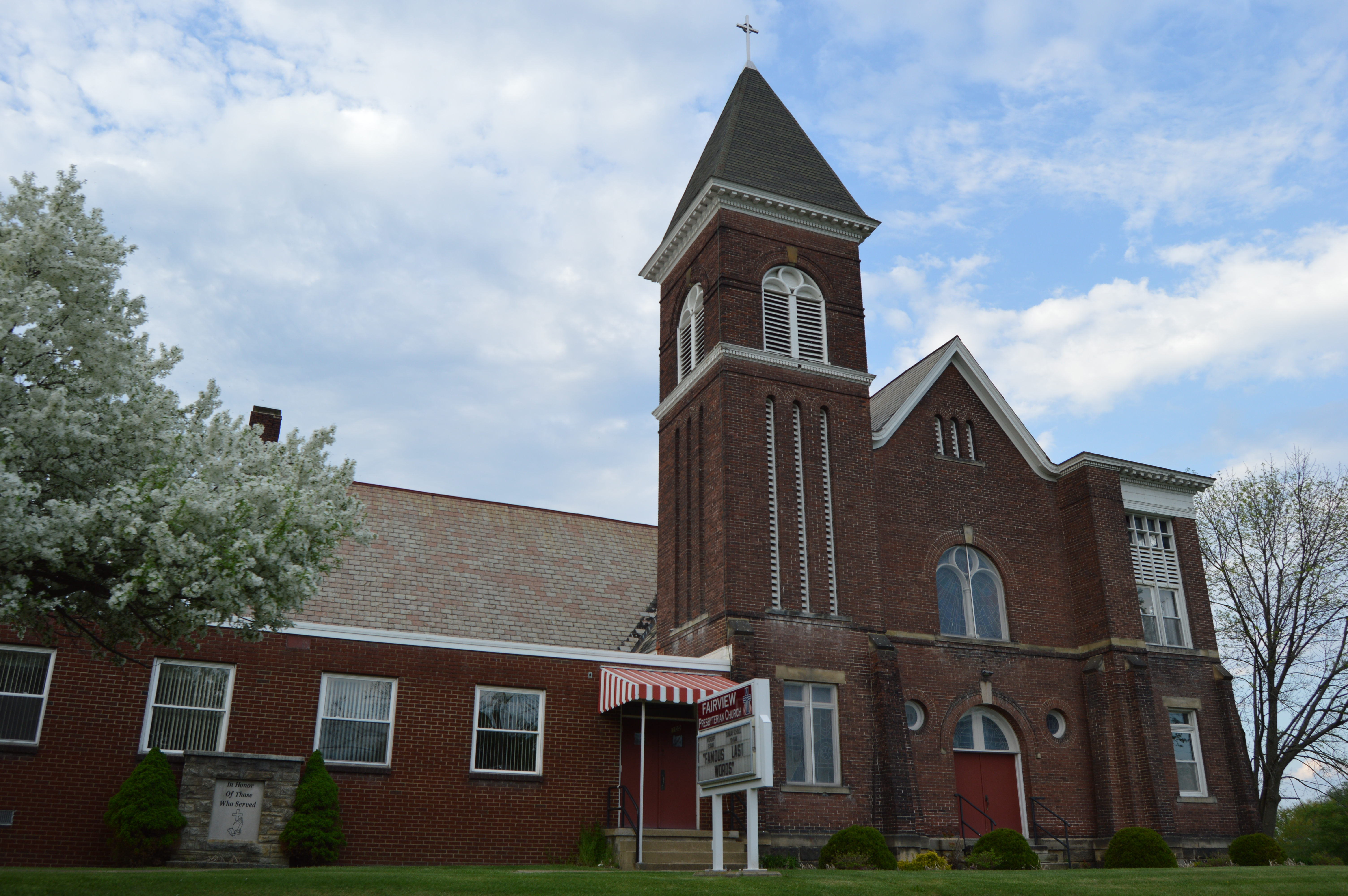 Front of the Fairview United Presbyterian Church, located at 109 Petrolia Road in Fairview, Butler County, Pennsylvania, United States.